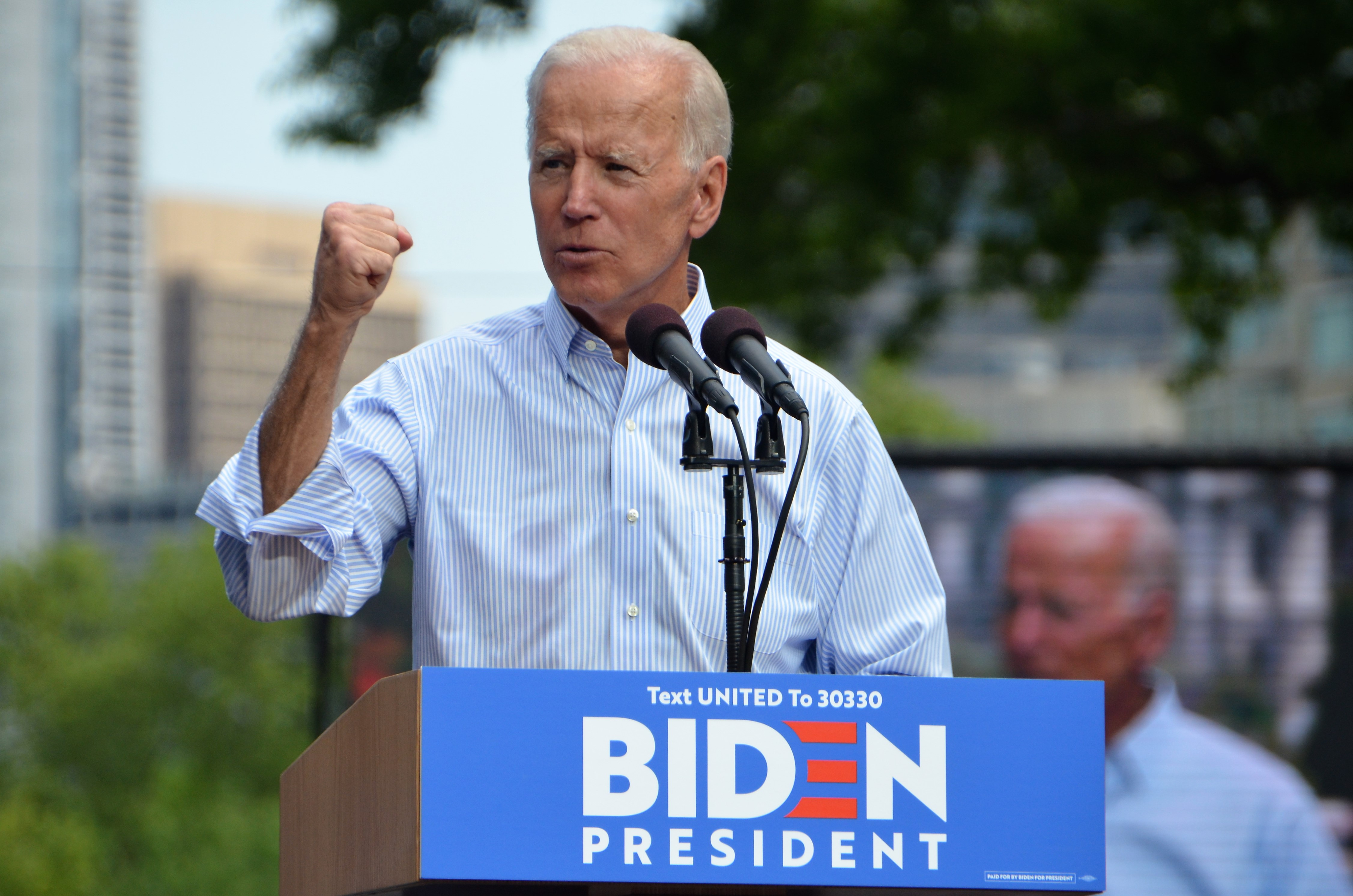 Former Vice President Joe Biden's kickoff rally for his 2020 Presidential campaign